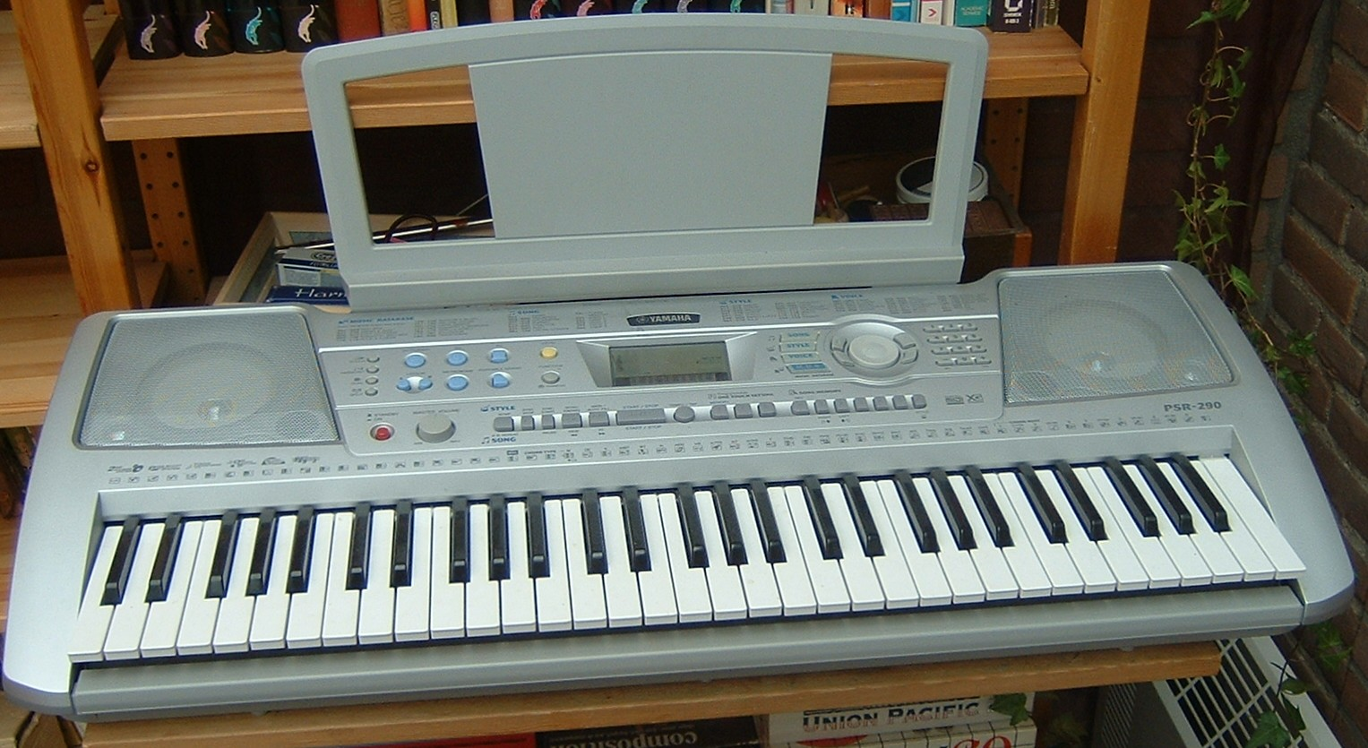 Yamaha electronic keyboard PSR-290